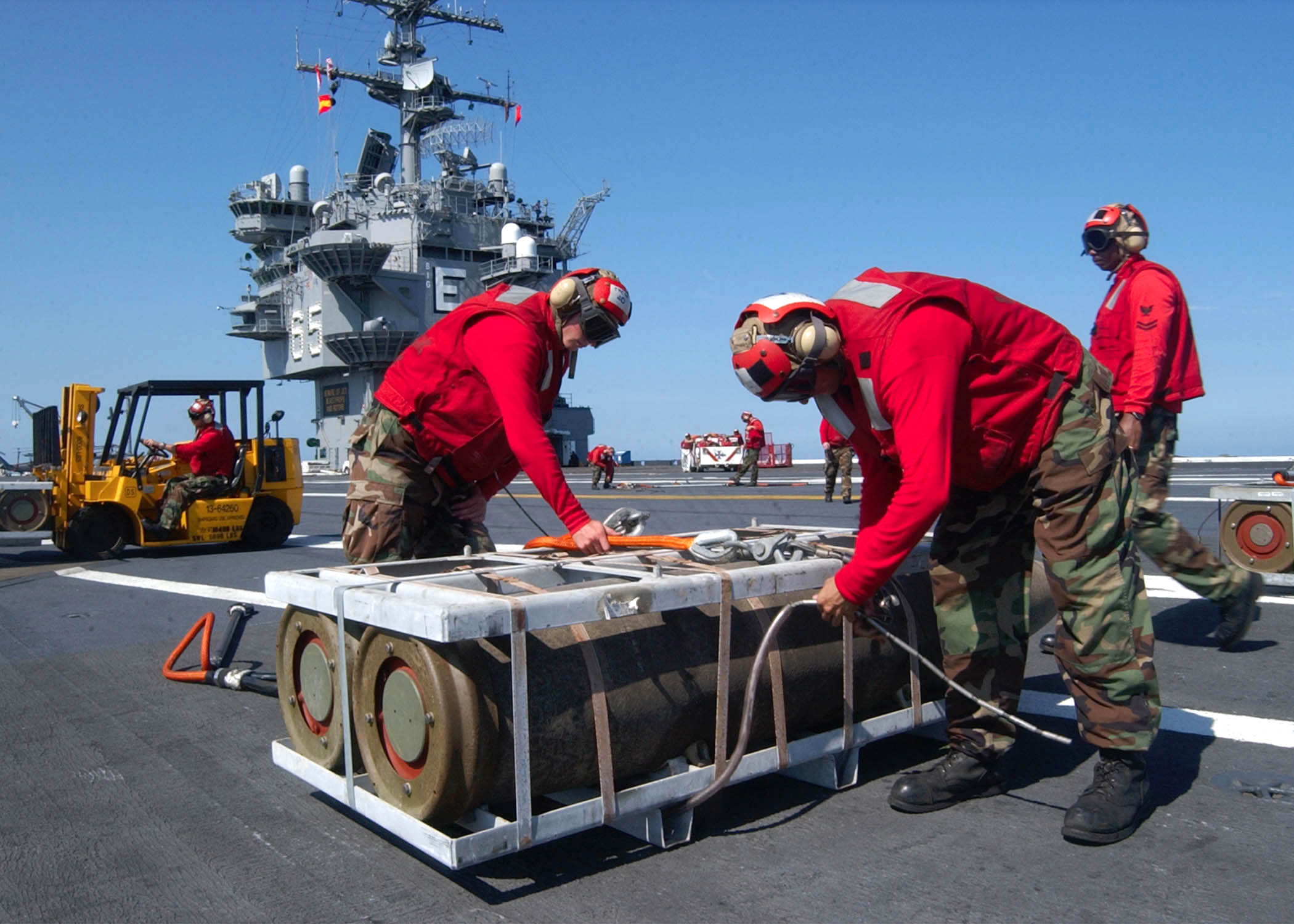 At sea aboard USS Enterprise (CVN 65) Aug. 30, 2003 -- Aviation Ordnancemen Airman Bryan K. Crone from Boulder, Co., and Aviation Ordnancemen 3rd Class Eric Rowan from Salem, Mo., both assigned to the “Sidewinders” of Strike Fighter Squadron Eighty Six (VFA-86), remove a hoisting sling from an ammo crate carrying 2000-pound Mark 84 general purpose bombs. Aviation Ordnanceman 2nd Class Kendrick A. Williams from Atlanta, Ga., assigned to the ship’s G-1 division supervises the weapons transfer. Enterprise is currently underway in the western Atlantic completing a Tailored Ships Training Availability (TSTA) in preparation for an upcoming scheduled deployment. U.S. Navy photo by Photographer's Mate 3rd Class Lance H. Mayhew, Jr. (RELEASED)